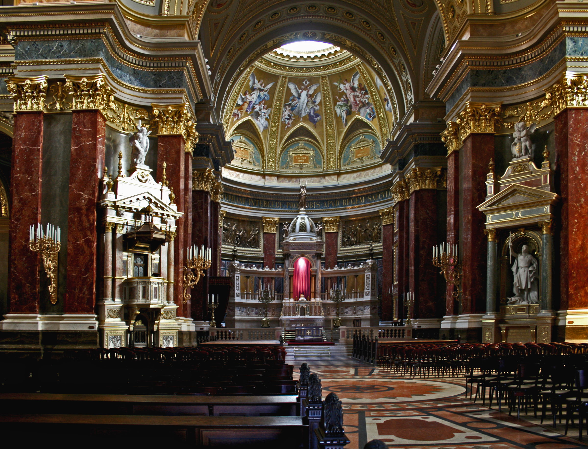 Interier of Saint Stephen's Basilica, Budapest